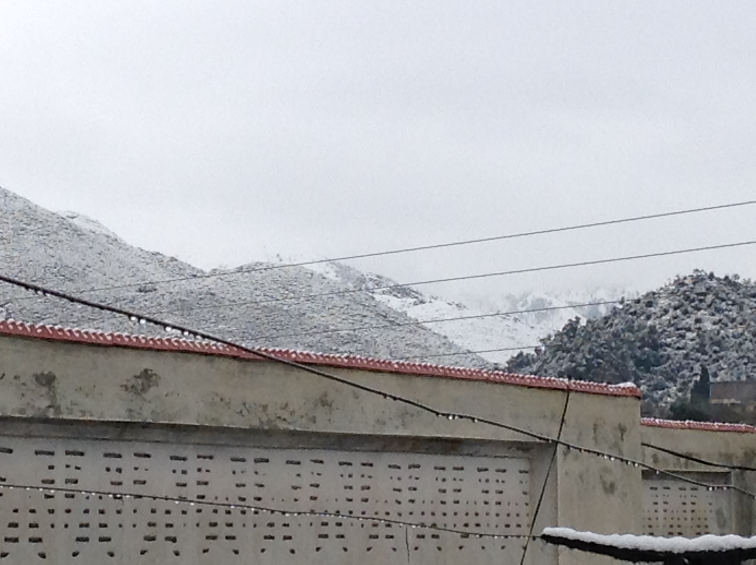 a beautiful day in serian snow on mountains